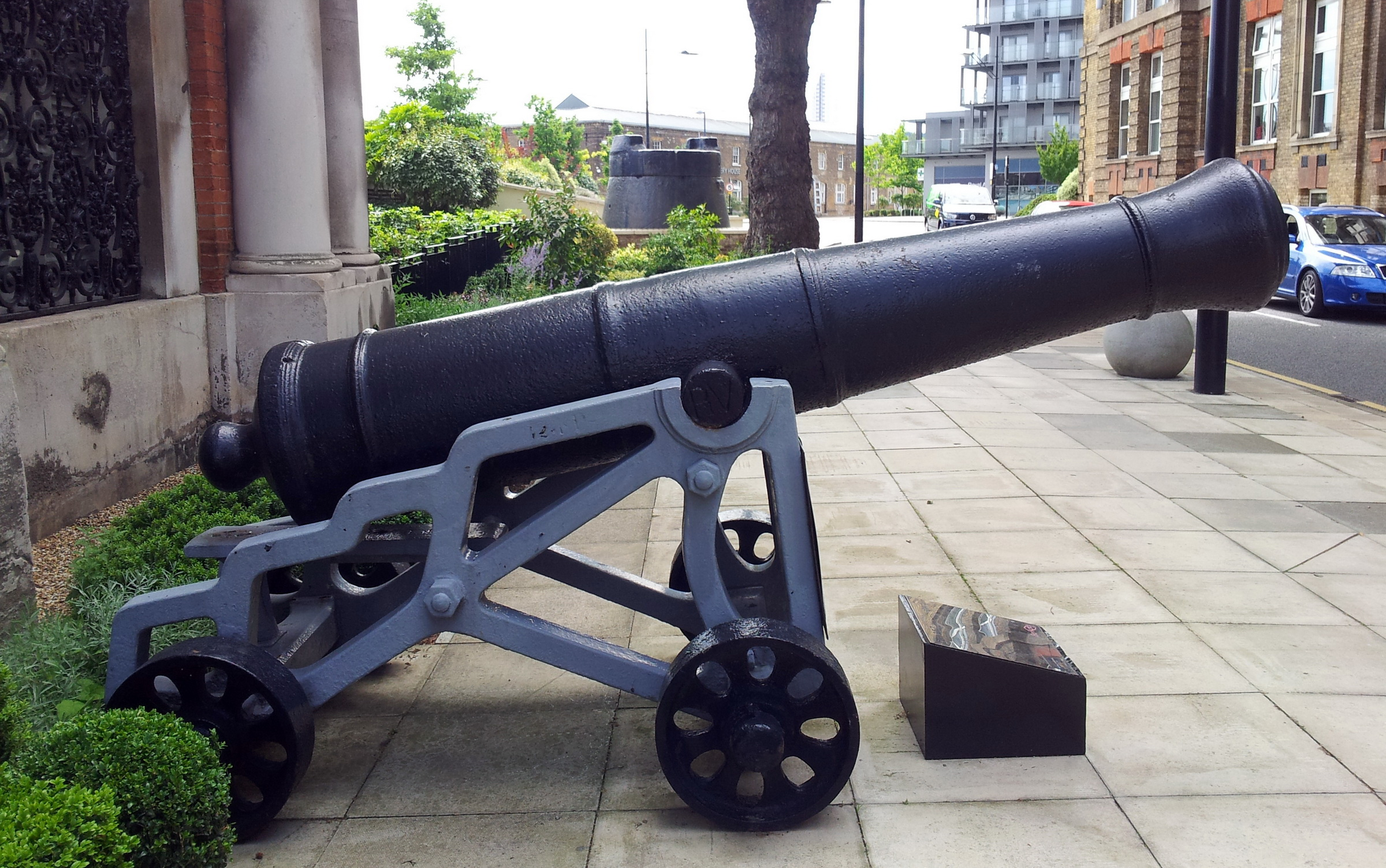 French iron 24-pounder gun from 1779, captured by Lord Howe at the Glorious First of June Battle in 1794, now on display near the Shell Foundry Gate in Wellington Park, Royal Arsenal, Woolwich, South East London.